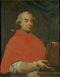 Aurelio Roverella (1748-1812), cardinal of the Roman Catholic Church